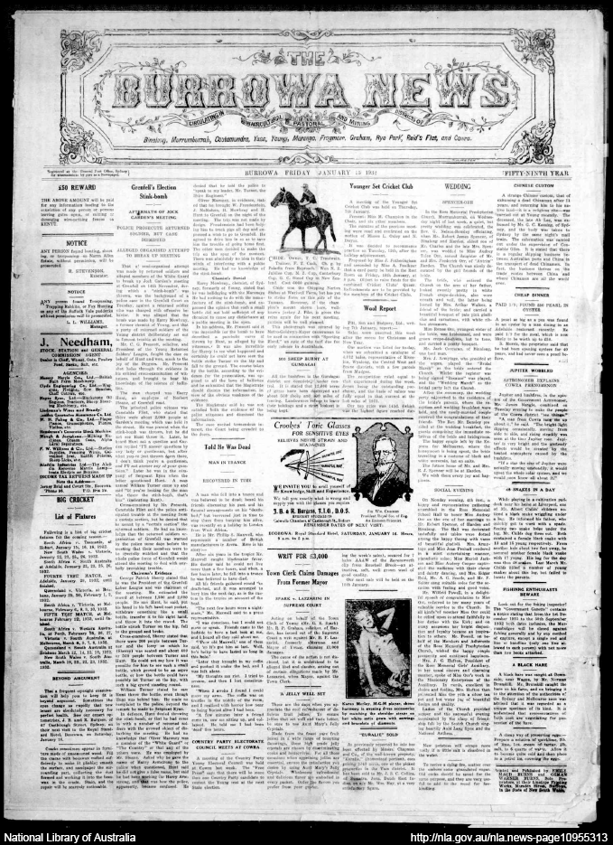 The front cover of the The Burrowa news and Marengo, Binalong, Murrumburrah and Cootamundra reporter on 15 January 1932.